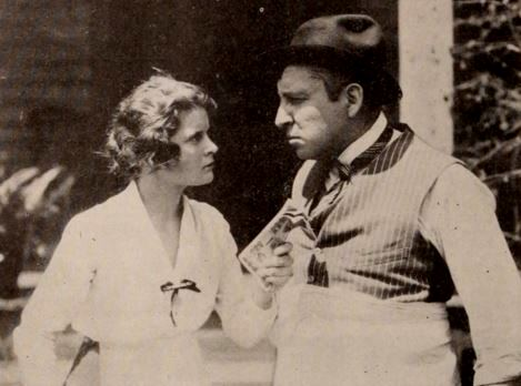 Still from the American drama film All Woman (1918) with Mae Marsh and an unidentified actor, on page 18 of the June 8, 1918 Exhibitors Herald.